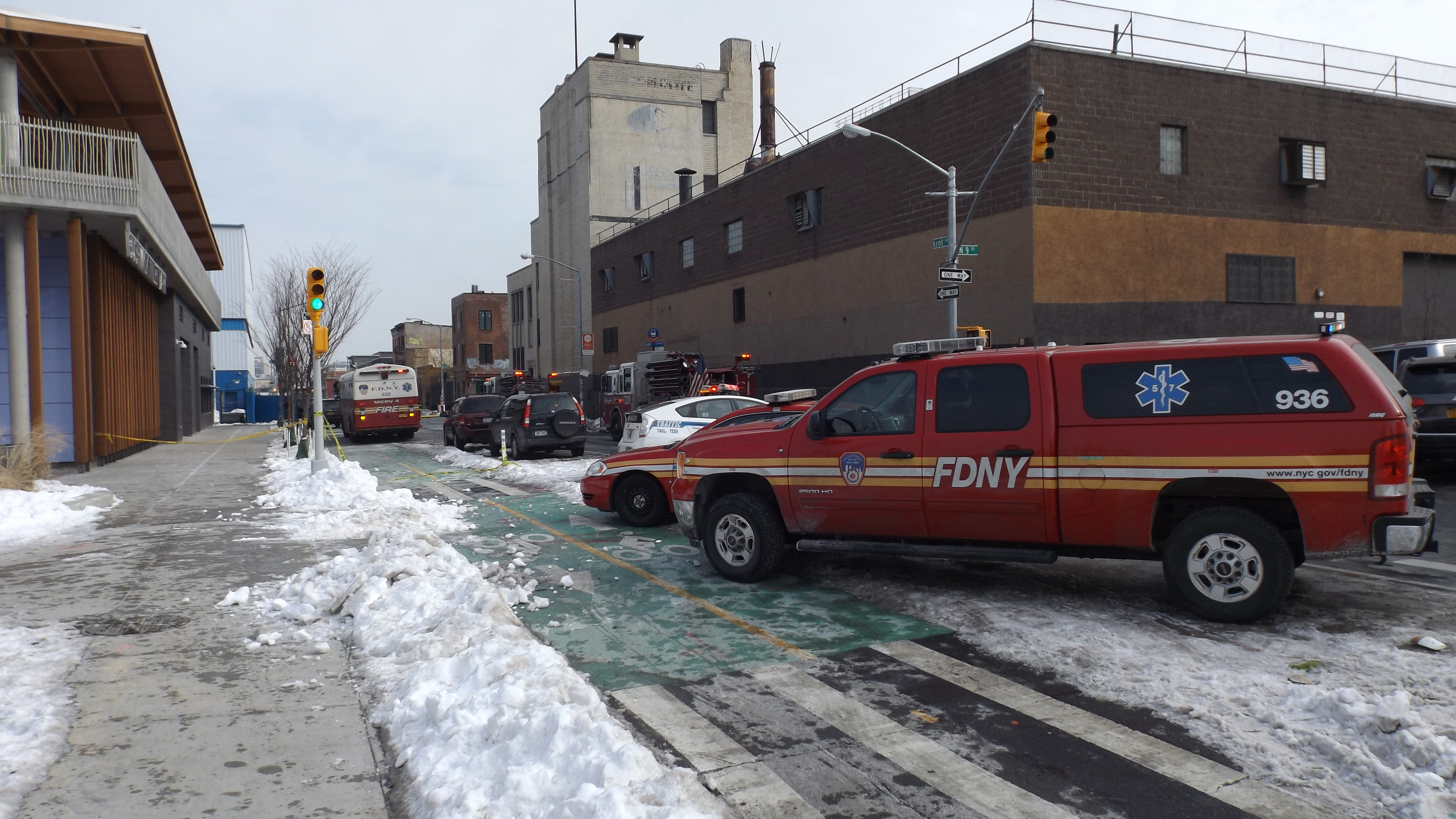 5 North 11th Street at Kent Avenue, fire, fireboat, paper collectors